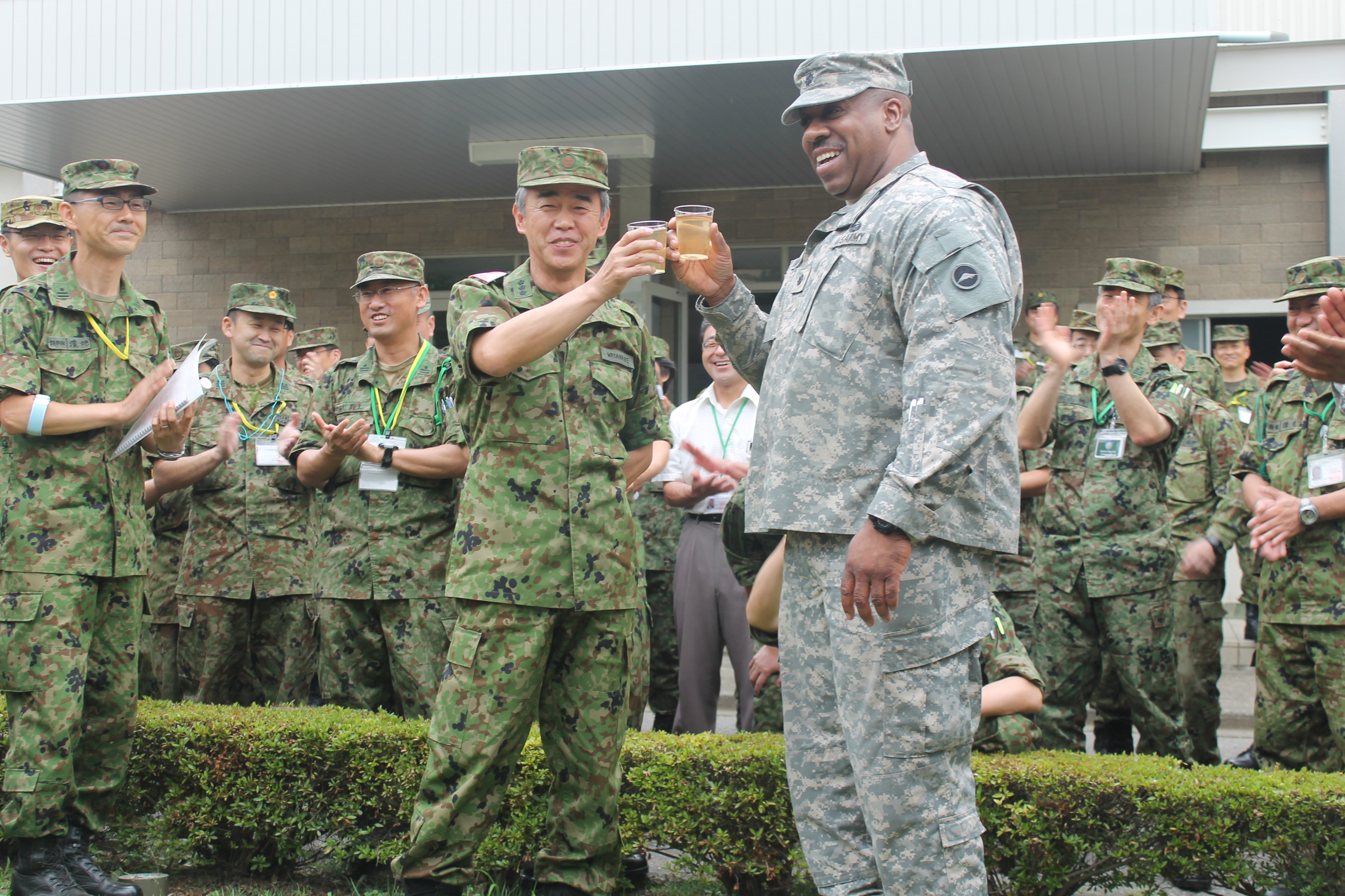 Lt. Gen. Yoshikazu Watanabe, commanding general of the Japanese Ground Self-Defense Forces Eastern Army and Lt. Col. Curtis A. Gibson, Deployable Assessment Team Leader toasts to U.S. and Japanese bilateral relationship with a cup of purified water from the Deployable Assessment Team's Aspen 1800 Reverse Osmosis Water Purification System demonstration at Camp Asaka, Japan on 20 July 2012. (Photo by Master Sgt. Derrick Hamilton, U.S. Army Pacific, Contingency Command Post Civil Affairs)